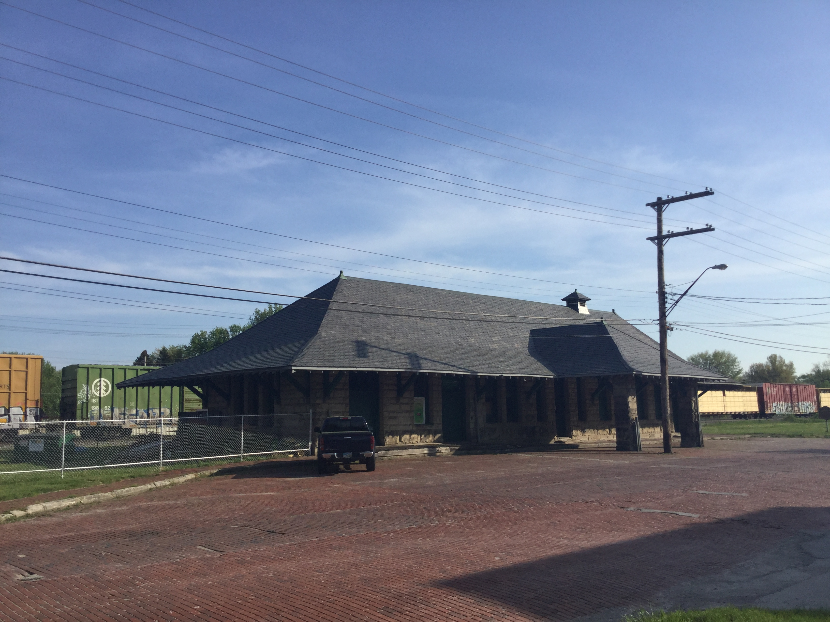 Painesville LS&MS station